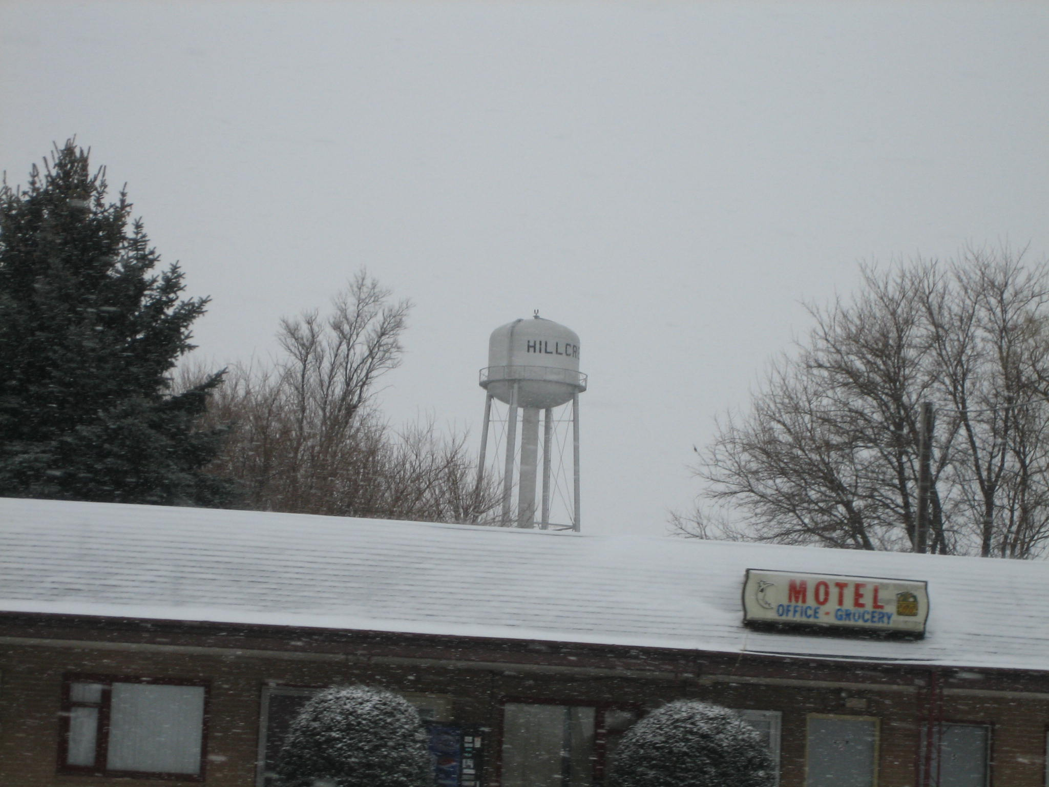 Hillcrest, Illinois. Random view, water tower.